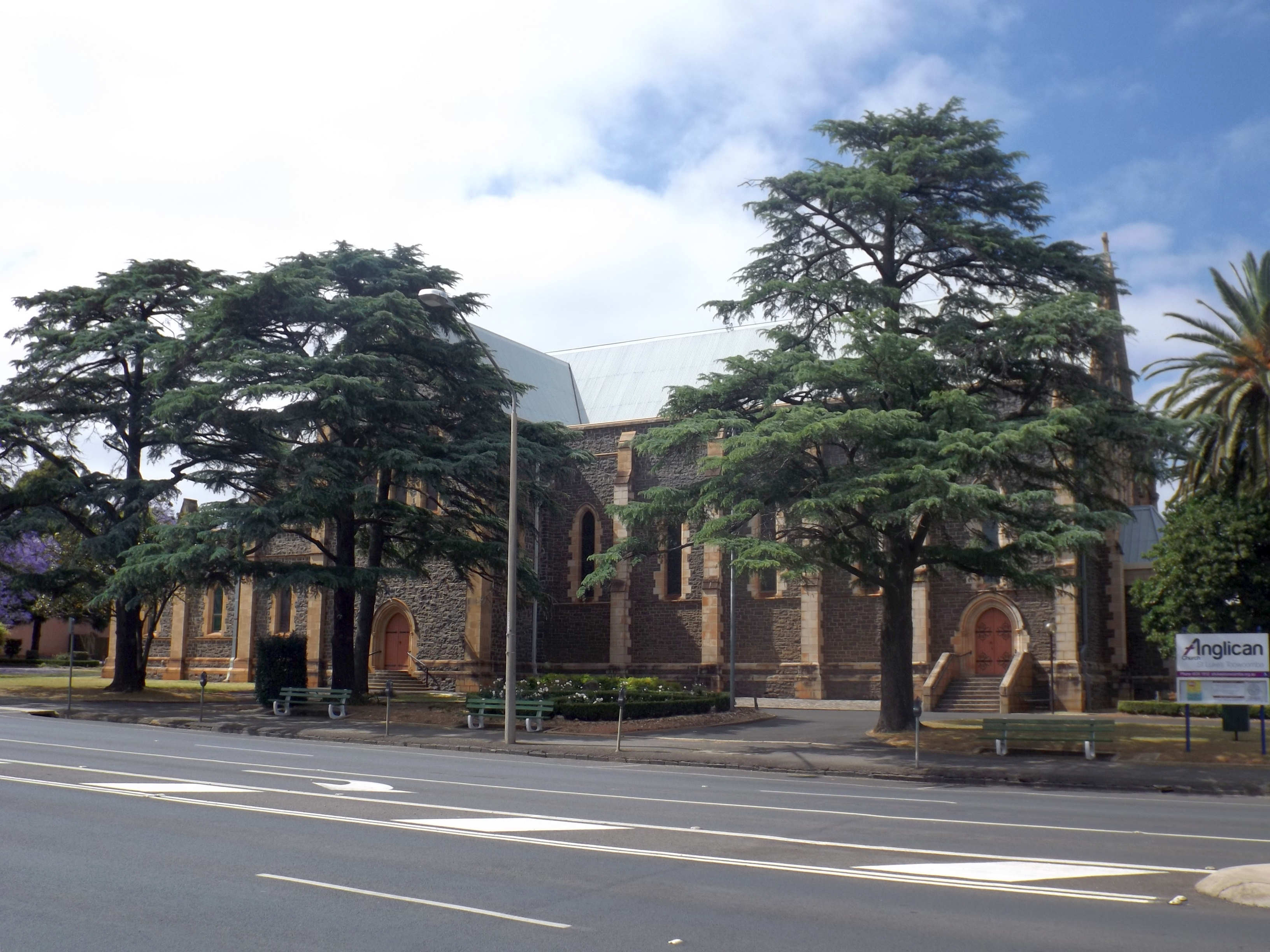 Photo of St Luke's Anglican Church in Toowoomba, Queensland, Australia.